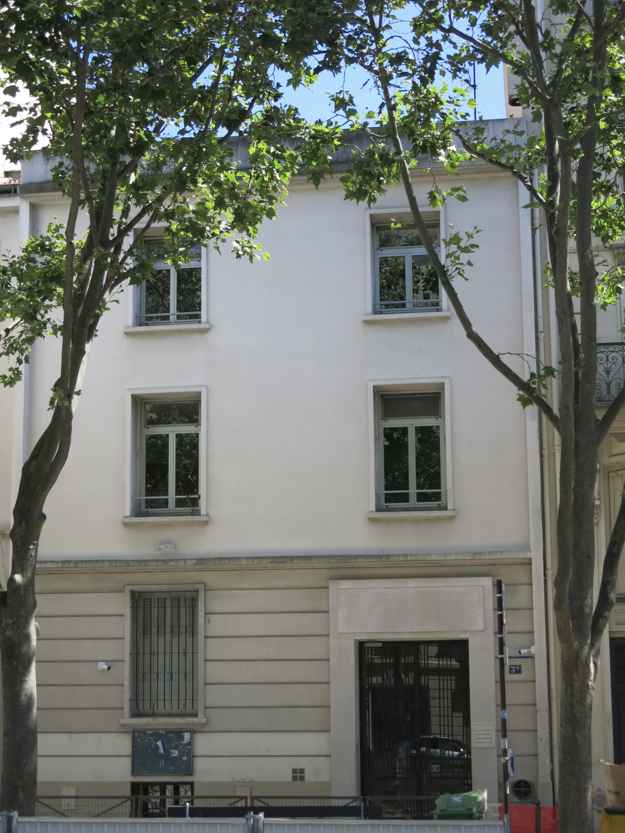 Building 3bis avenue de Villars, Paris 7th arrond. (France). - Istituto Statale Italiano Leonardo Da Vinci preschool and elementary school